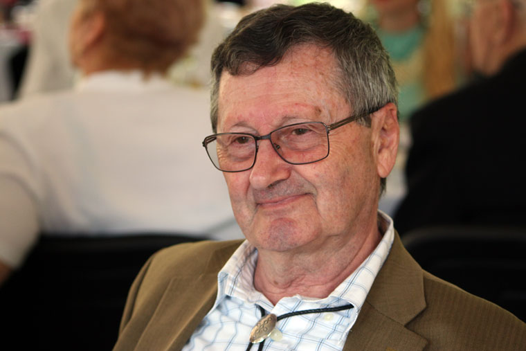 József Gyulai a Hungarian physicist.